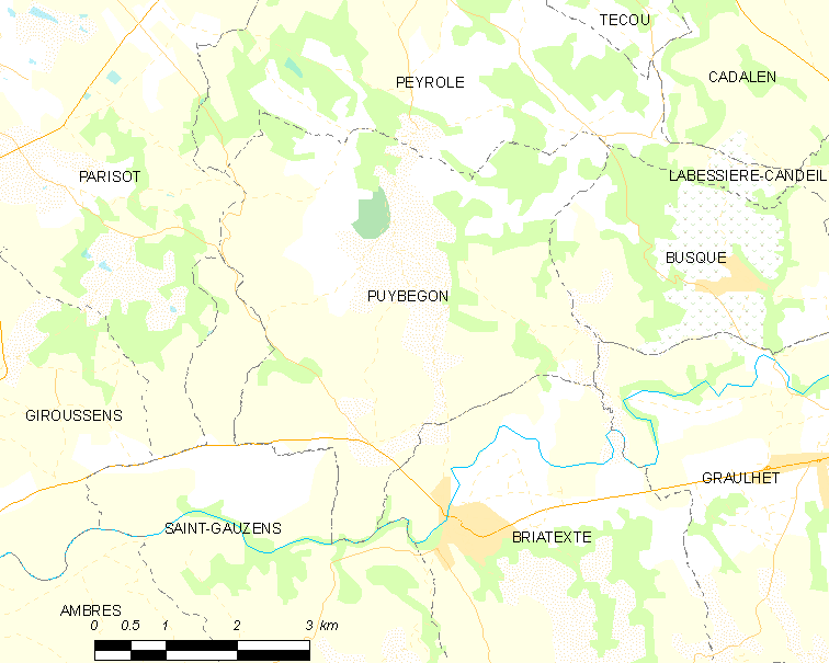 Map of French municipality Puybegon